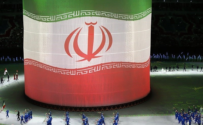 2017 Asian Indoor and Martial Arts Games